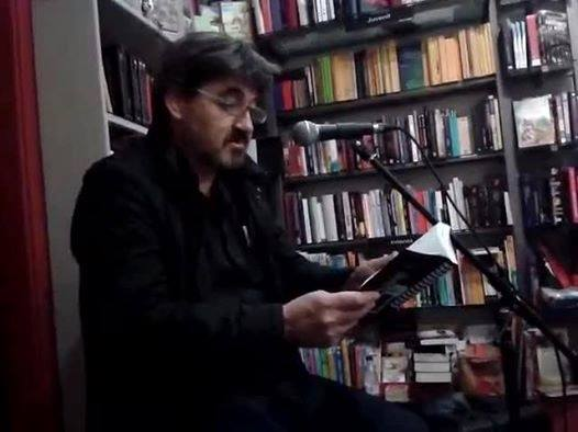 Karmelo C. Iribarren (Donostia, 1959), spanish poet